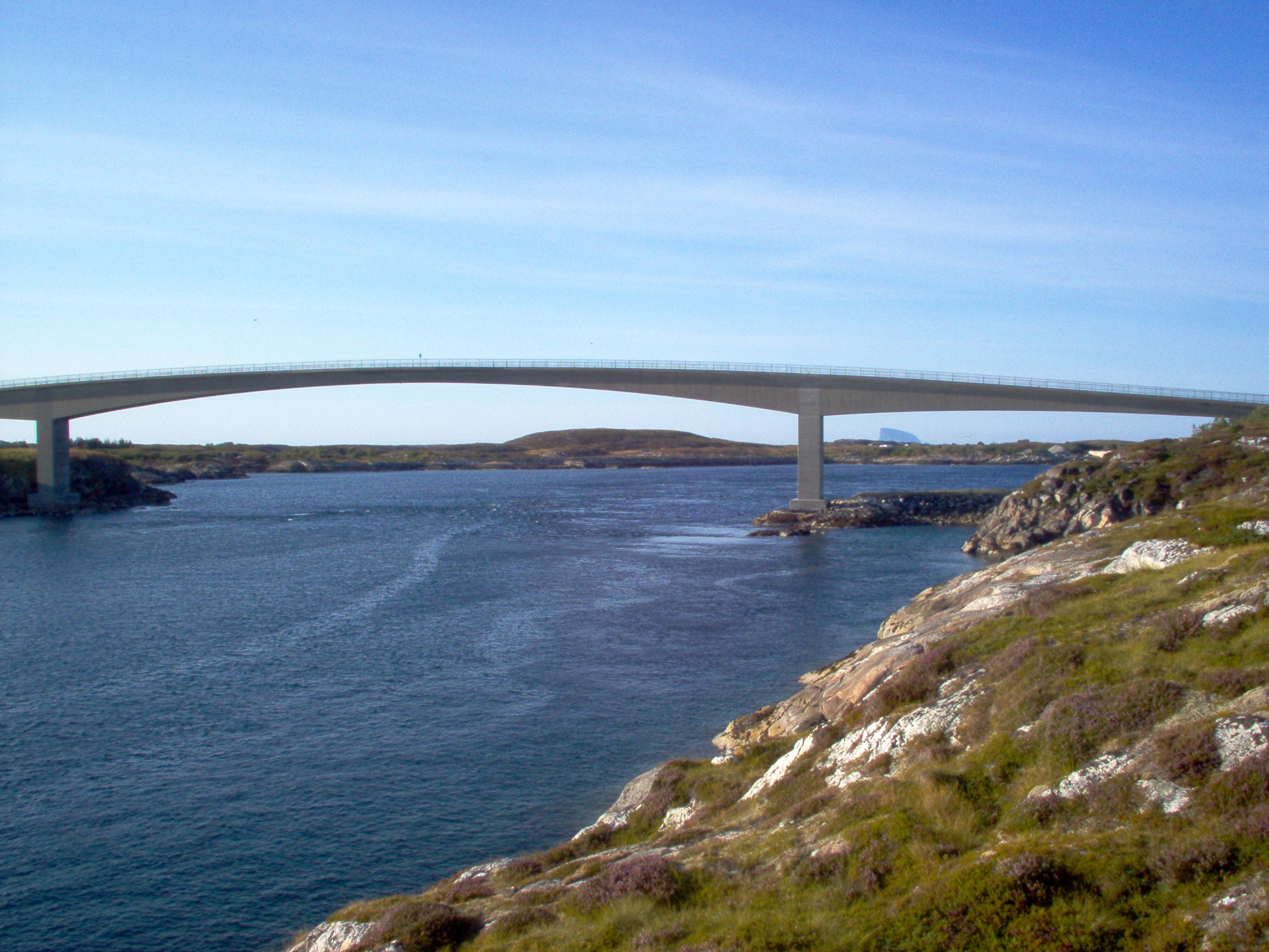 Hoholmen Bridge and Hoholmstrømmen; taken from Hoholmen, with Lovund in the far background.